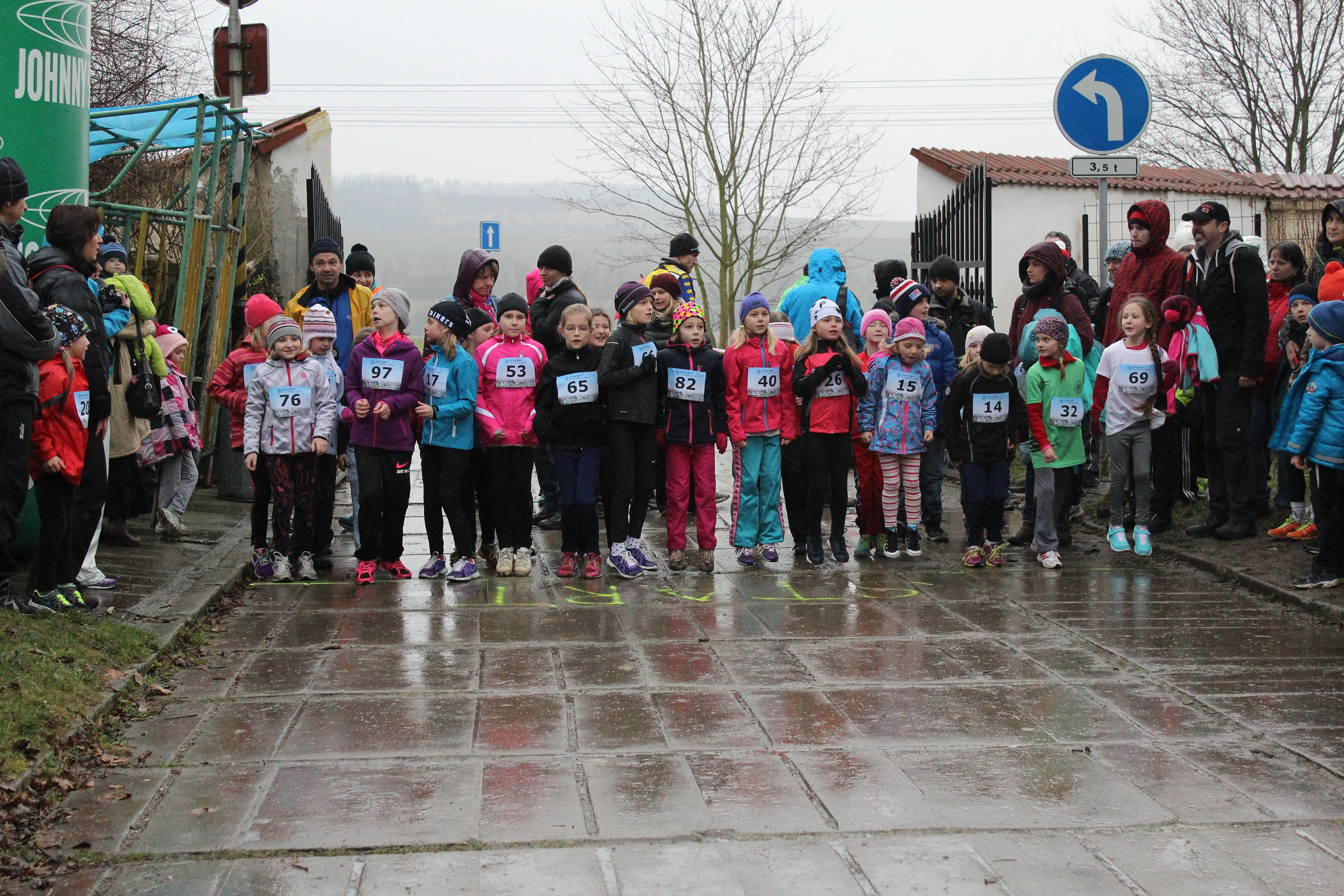 Zimní běh Litní